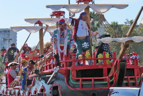 A float in the 2013 Gasparilla Pirate Festival in Tampa, Florida